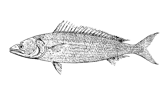 Eastern Australian Salmon (Arripis trutta) from Günther, A.C.L.G., 1880. An introduction to the study of fishes. Today & Tomorrow's Book Agency, New Delhi.